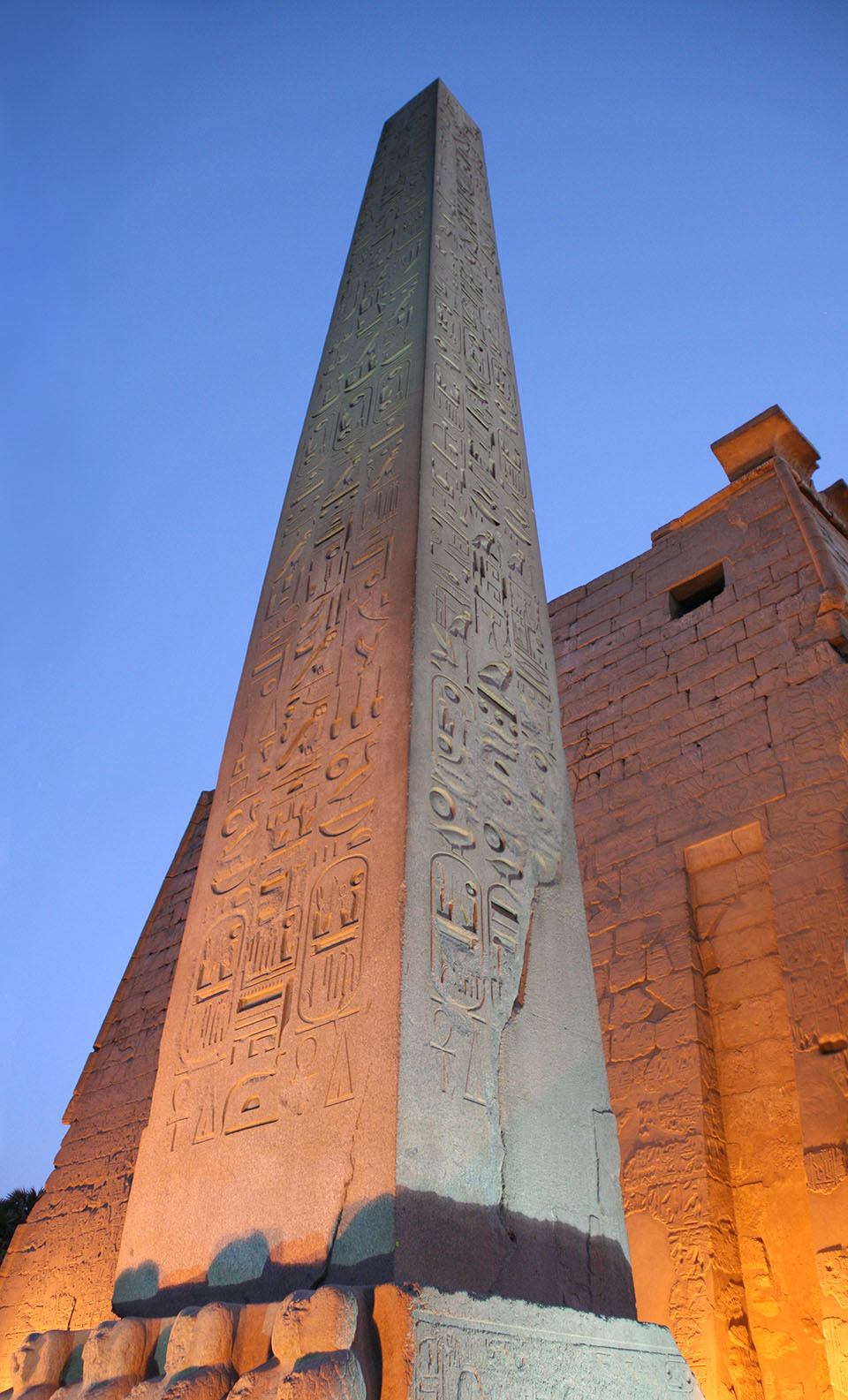 Luxor Temple (Egypt) by night, showing close-up of red granite obelisk.